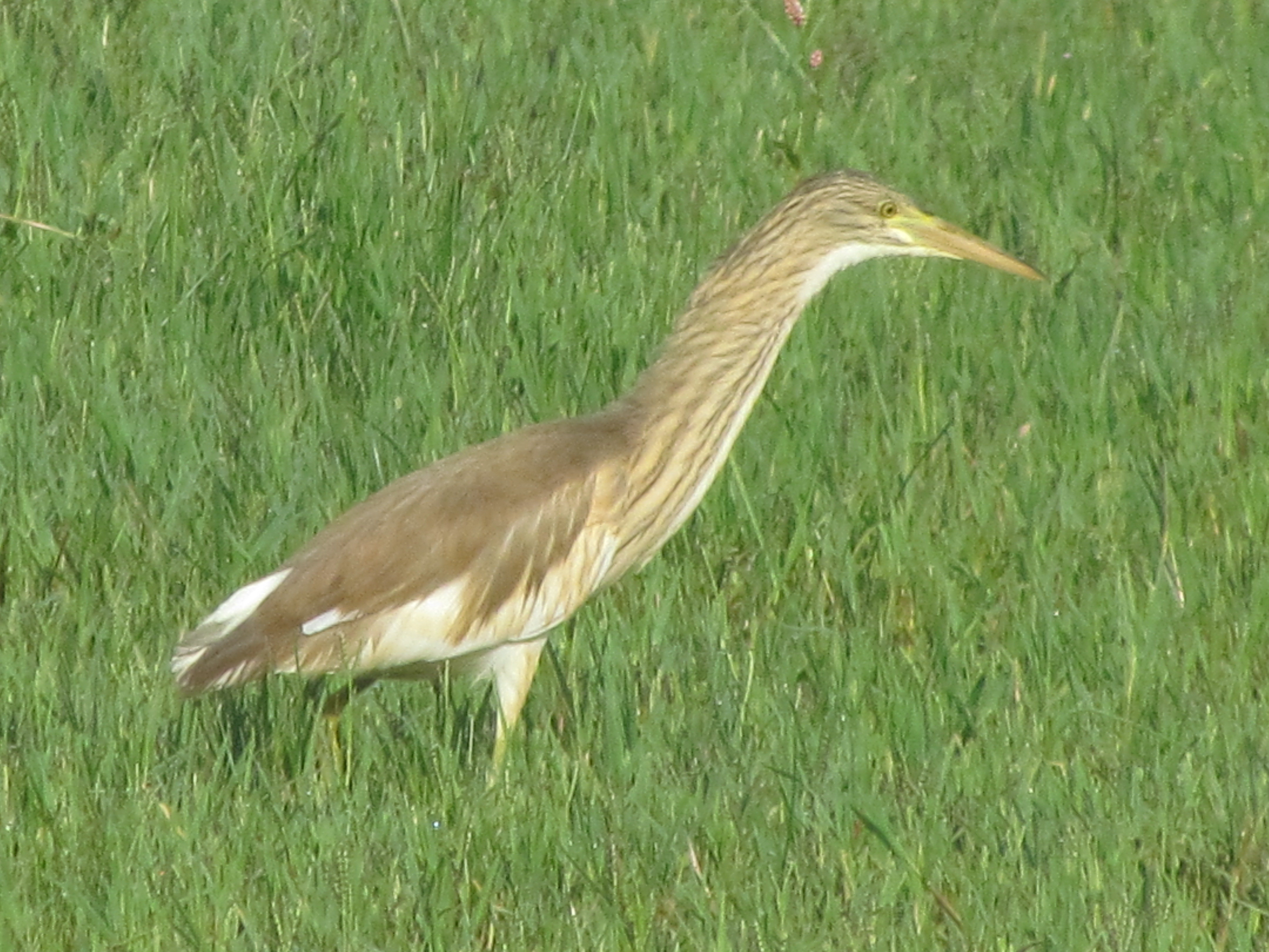 Squacco Heron Ardeola Ralloides, August 19 2012, Saintes-Maries-de-la-Mer, France